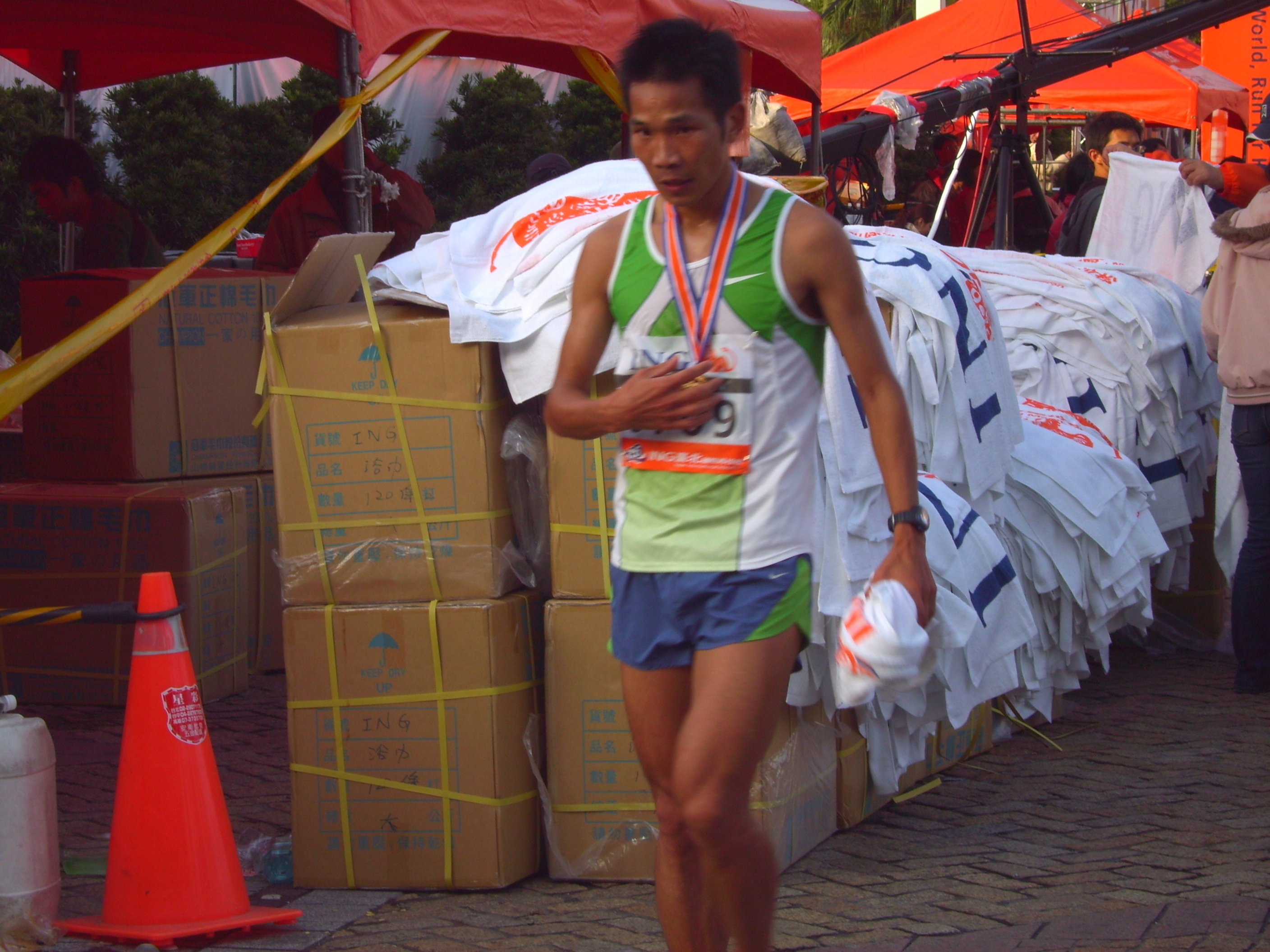 Wen-chien Wu is winner of Men's 21KM Marathon Group at 2006 ING the 10th Taipei International Marathon.